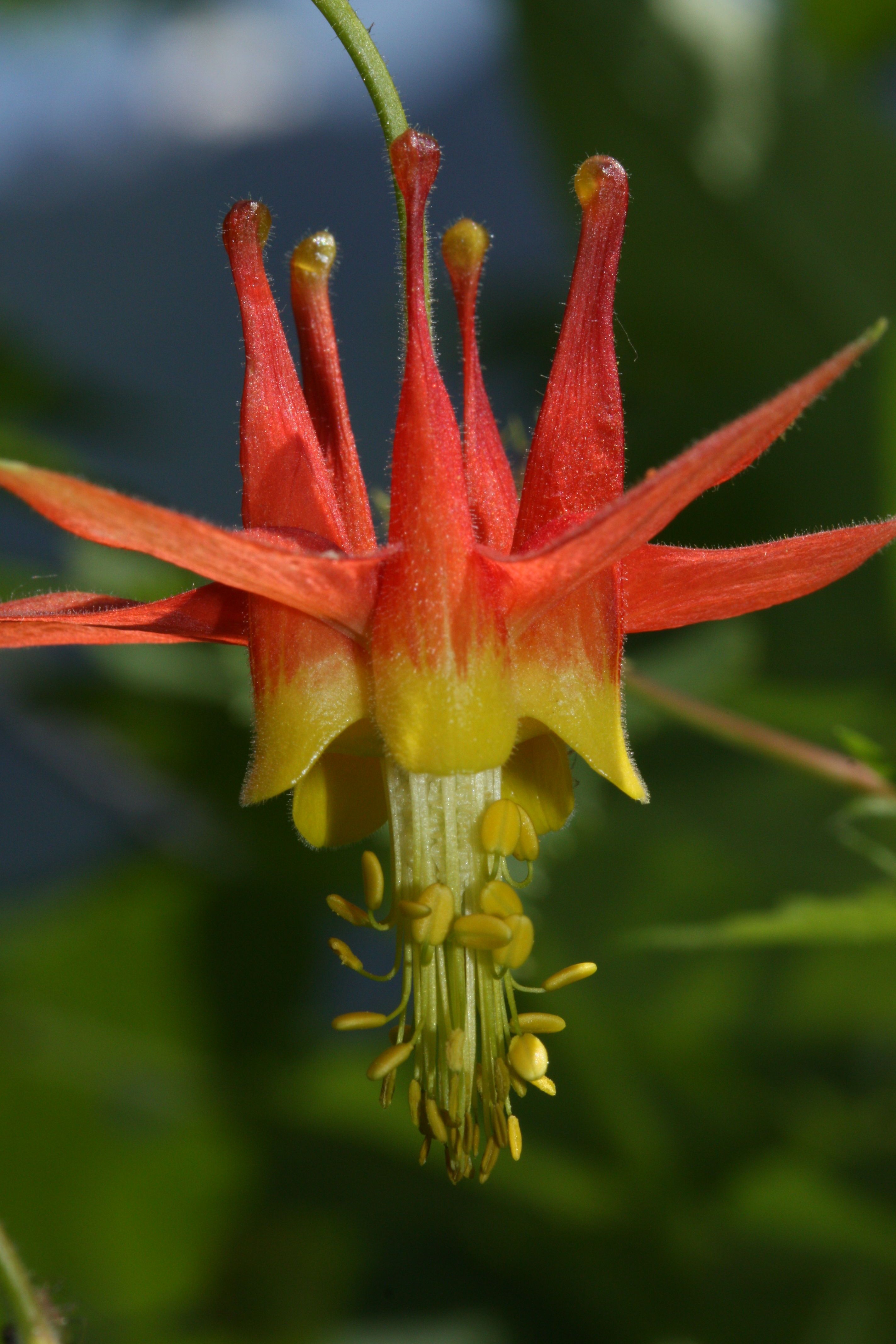 Red Columbine, Western Columbine, Sitka Columbine